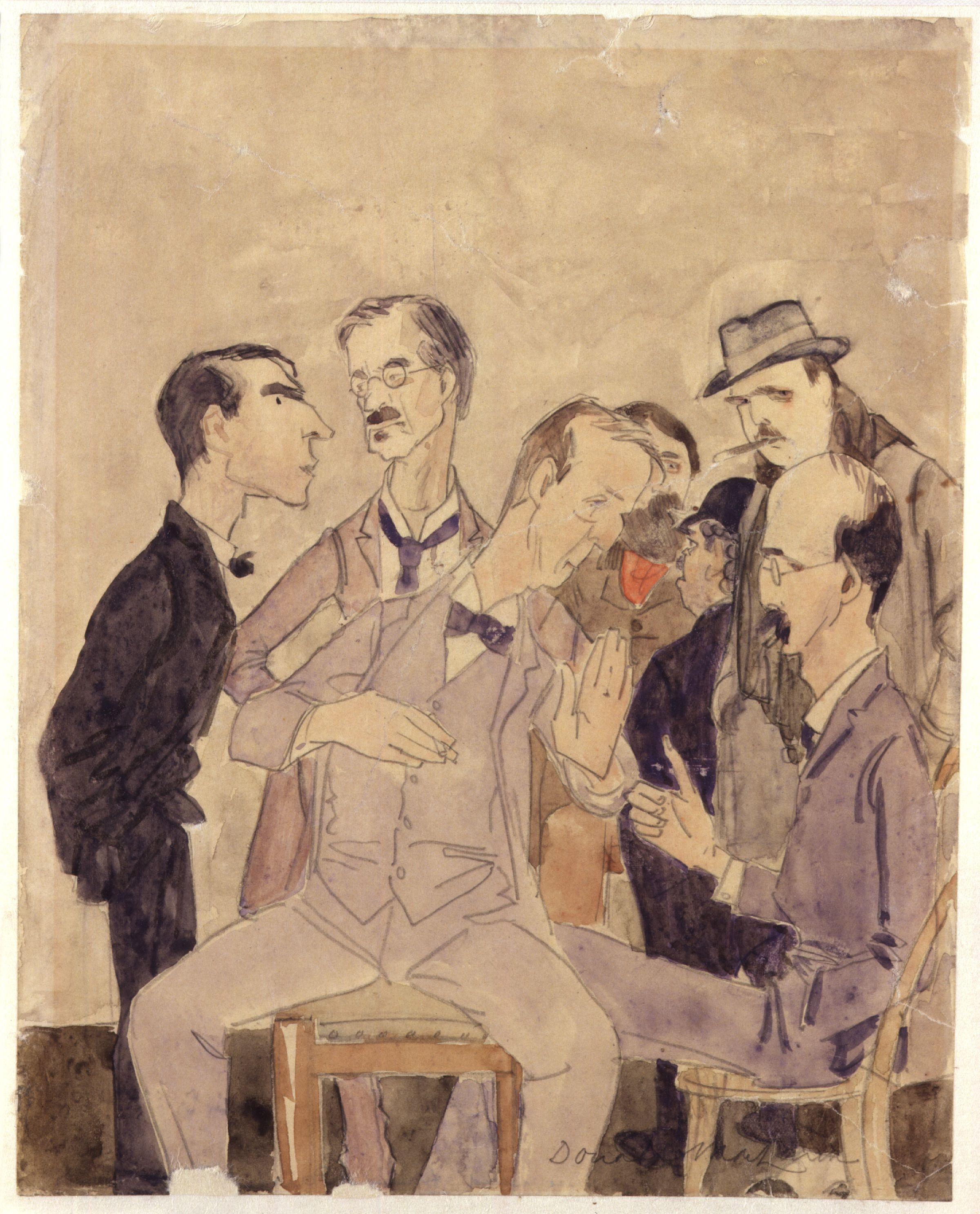 Some members of the New English Art Club, by Donald Graeme MacLaren (died 1917). All images in this batch have been confirmed as author died before 1939 according to the official death date listed by the NPG.